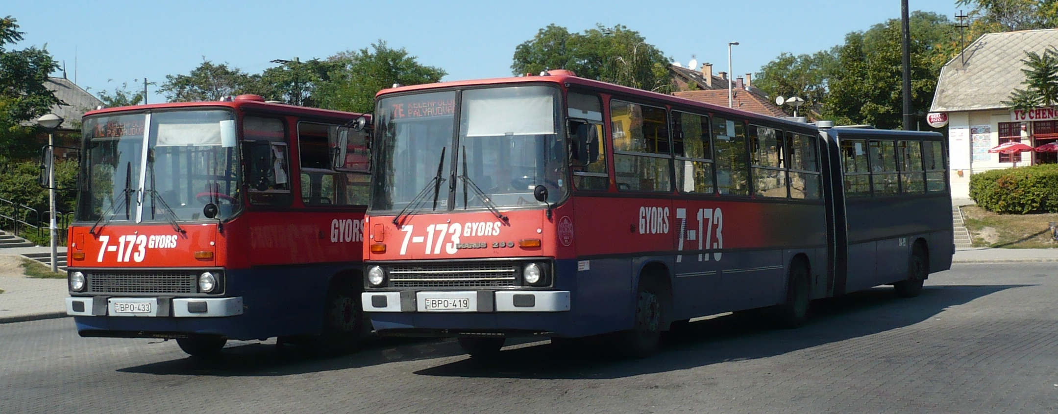 Two 7E buses in Budapest, Kelenföldi pályaudvar station.